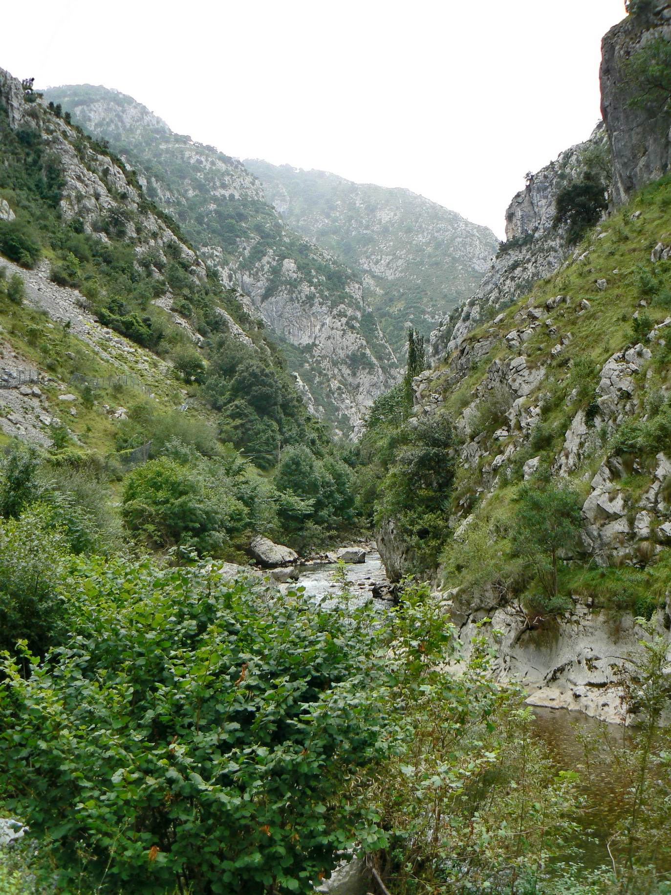 Desfiladero de la Hermida, Cantabria, Spain